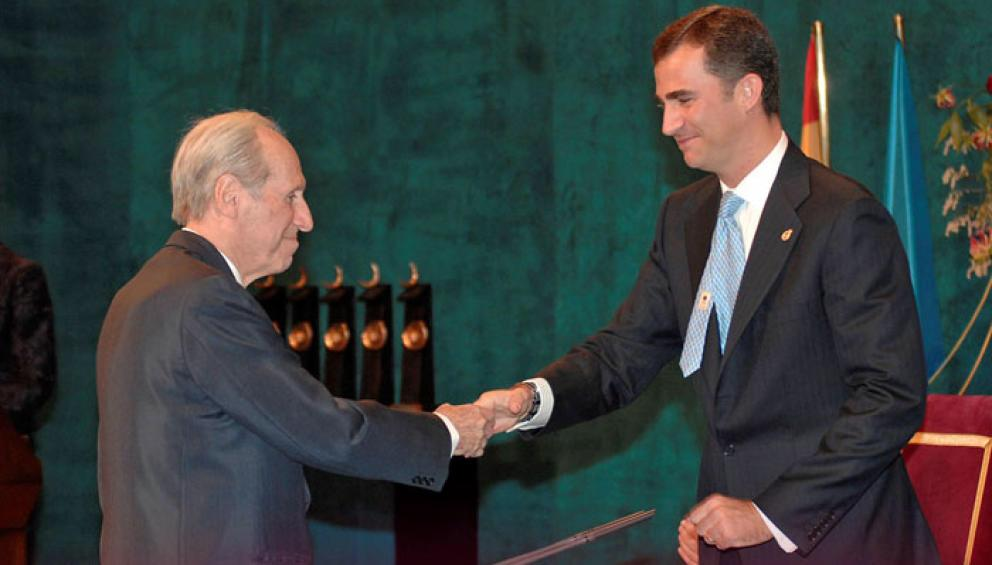 Max Mazin shaking the hand of the Felipe VI of Spain in los Premios Principe de Asturias